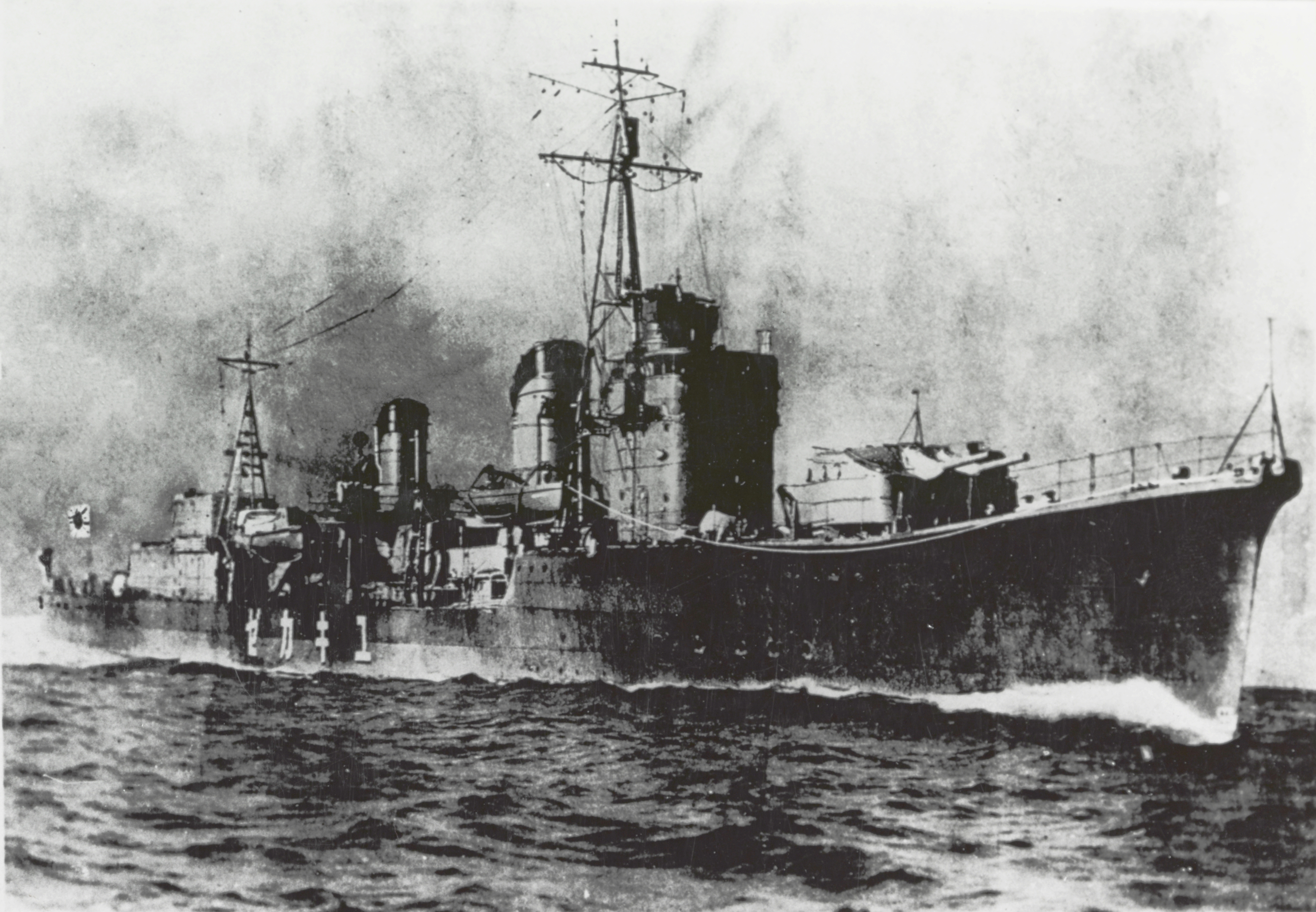 Removed caption read: Photo # NH 73052 Japanese destroyer Yukikaze underway, January 1940 Yukikaze (Japanese destroyer, 1940) Underway off Sasebo, Japan, in January 1940. U.S. Naval Historical Center Photograph. Donation of Kazutoshi Hando, 1970. Online Image: 97KB; 740 x 535 pixels